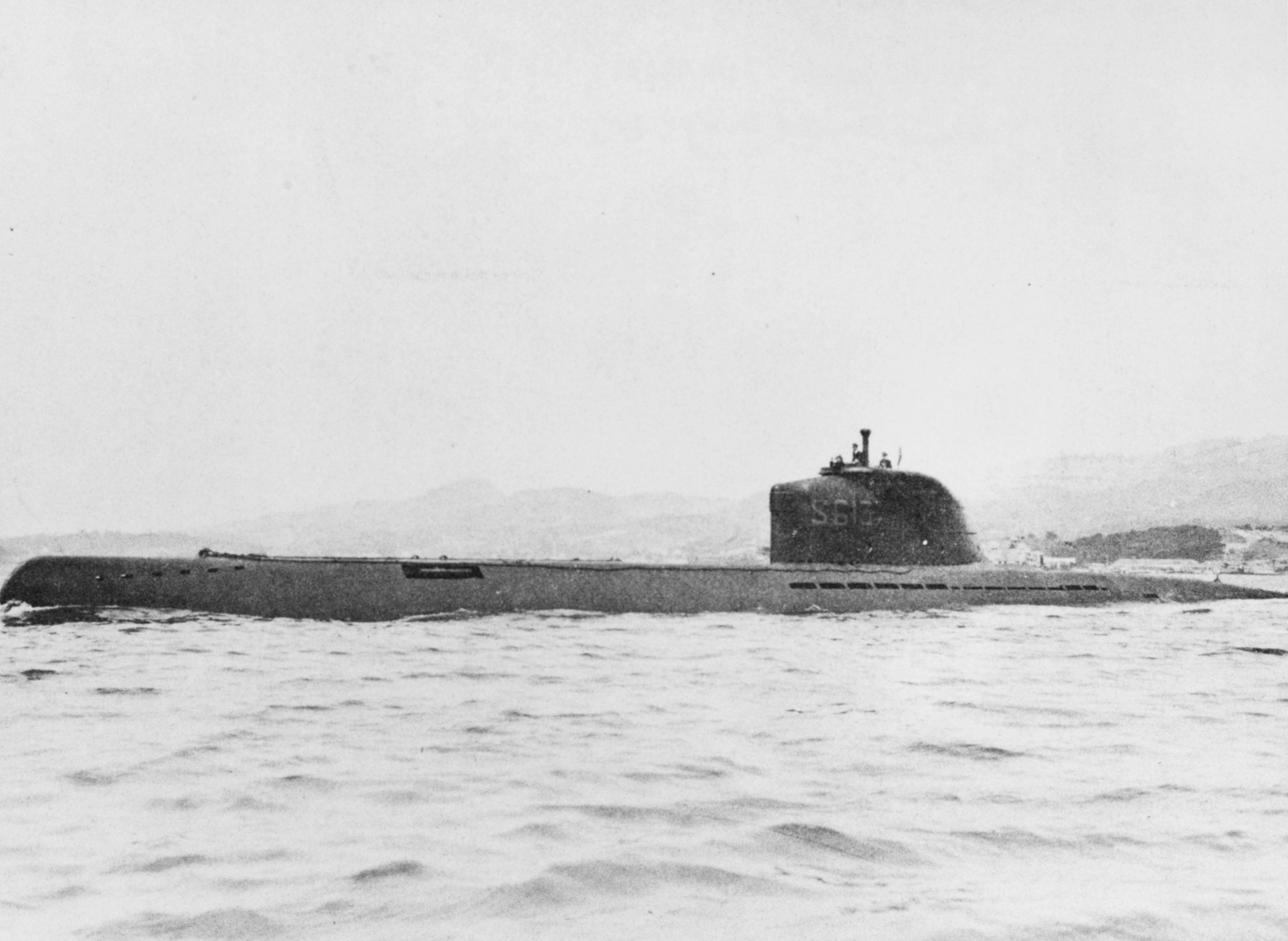 The French submarine Roland Morillot (S613) shown after her first French refit circa 1950. Formerly the German Type XXI submarine U-2518, she was ceded to France after the war.